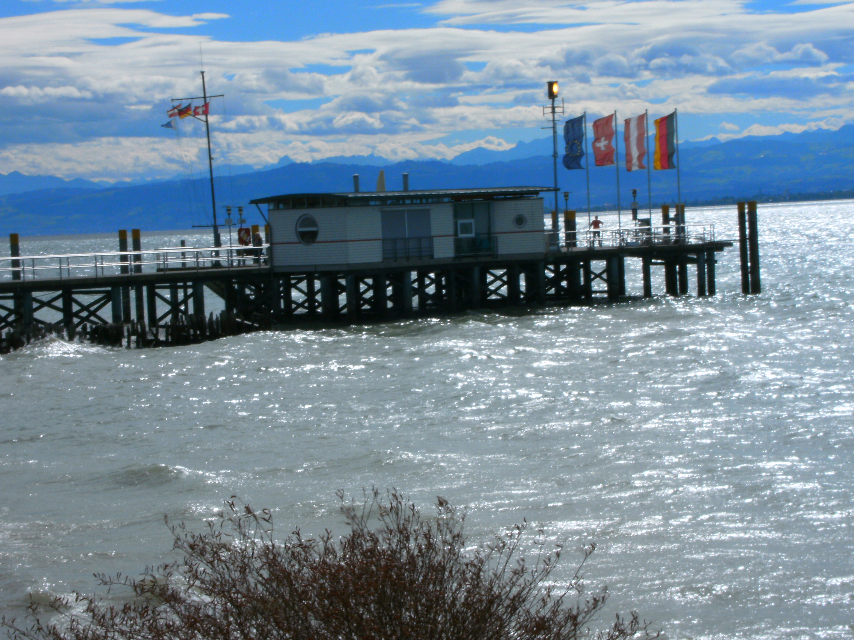 Landing stage Hagnau am Bodensee (Lake Constance). Stormy weather with storm warning.